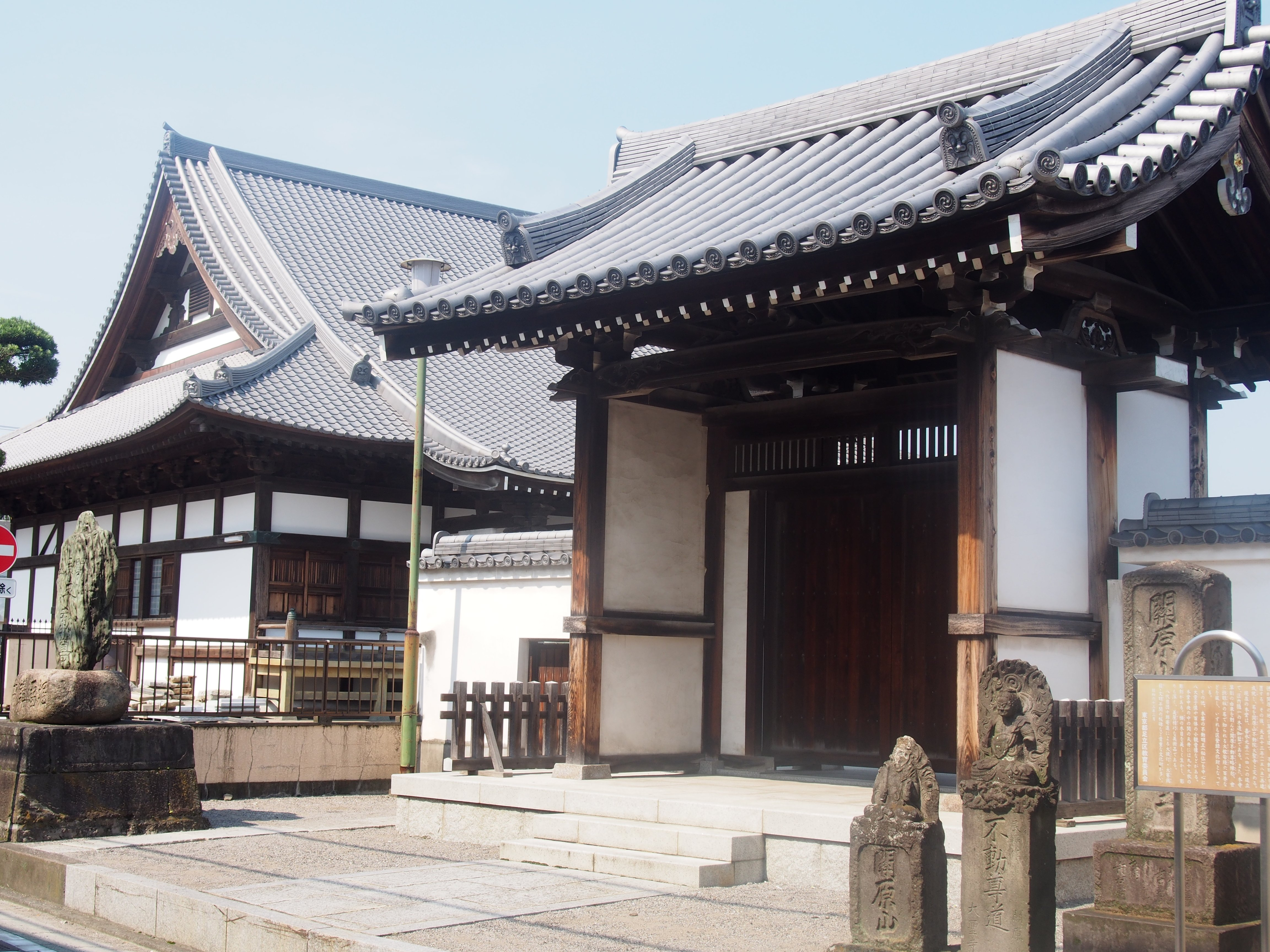 A photo of Daisyoji temple(Sekihara Fudo),Sekihara,Adachi-ku,Tokyo,Japan.